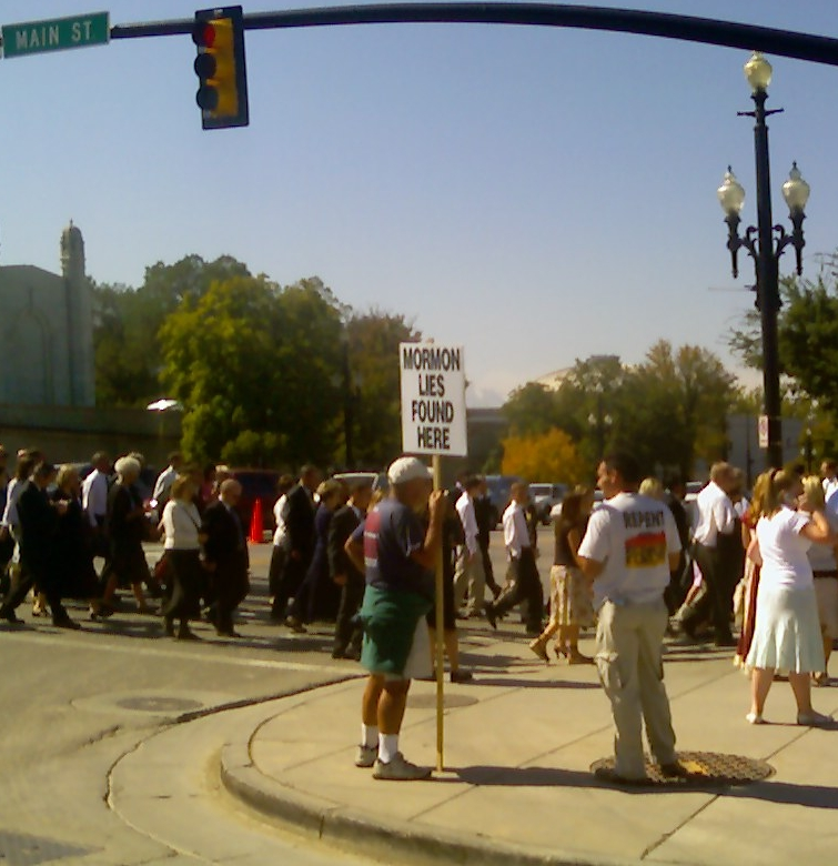 Protesters during an general conference of The Church of Jesus Christ of Latter-day Saints (LDS Church) in en:2006.